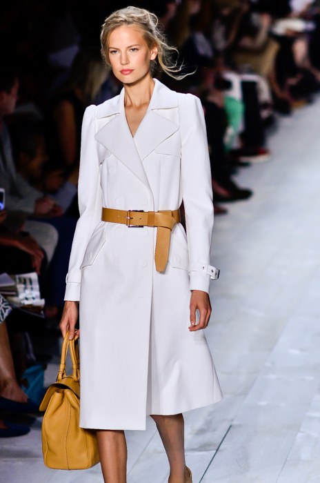 A model walks the runway at the Michael Kors Spring/Summer 2014 show at New York Fashion Week, September 2013.